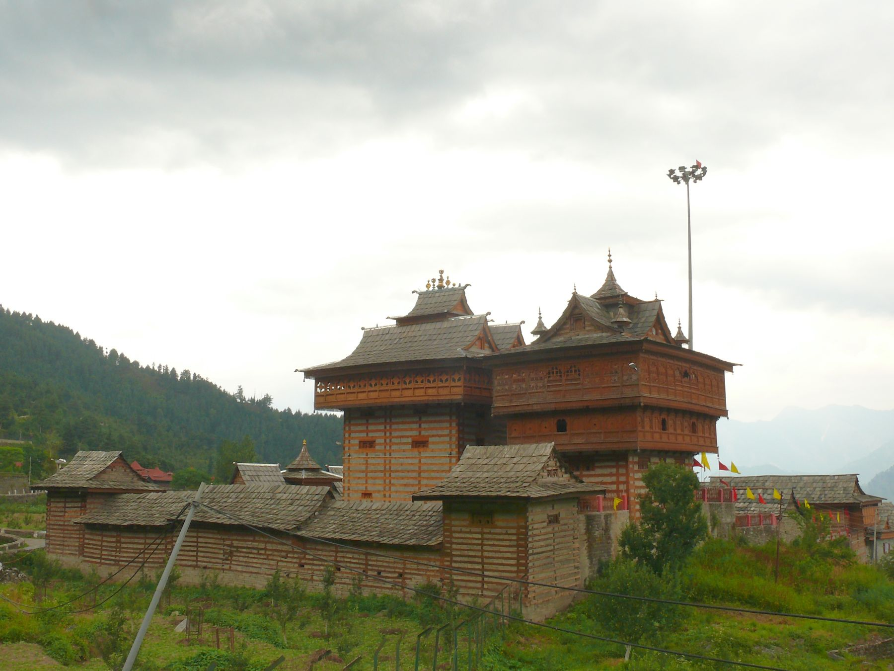 Bhima Kali Temple Sarahan